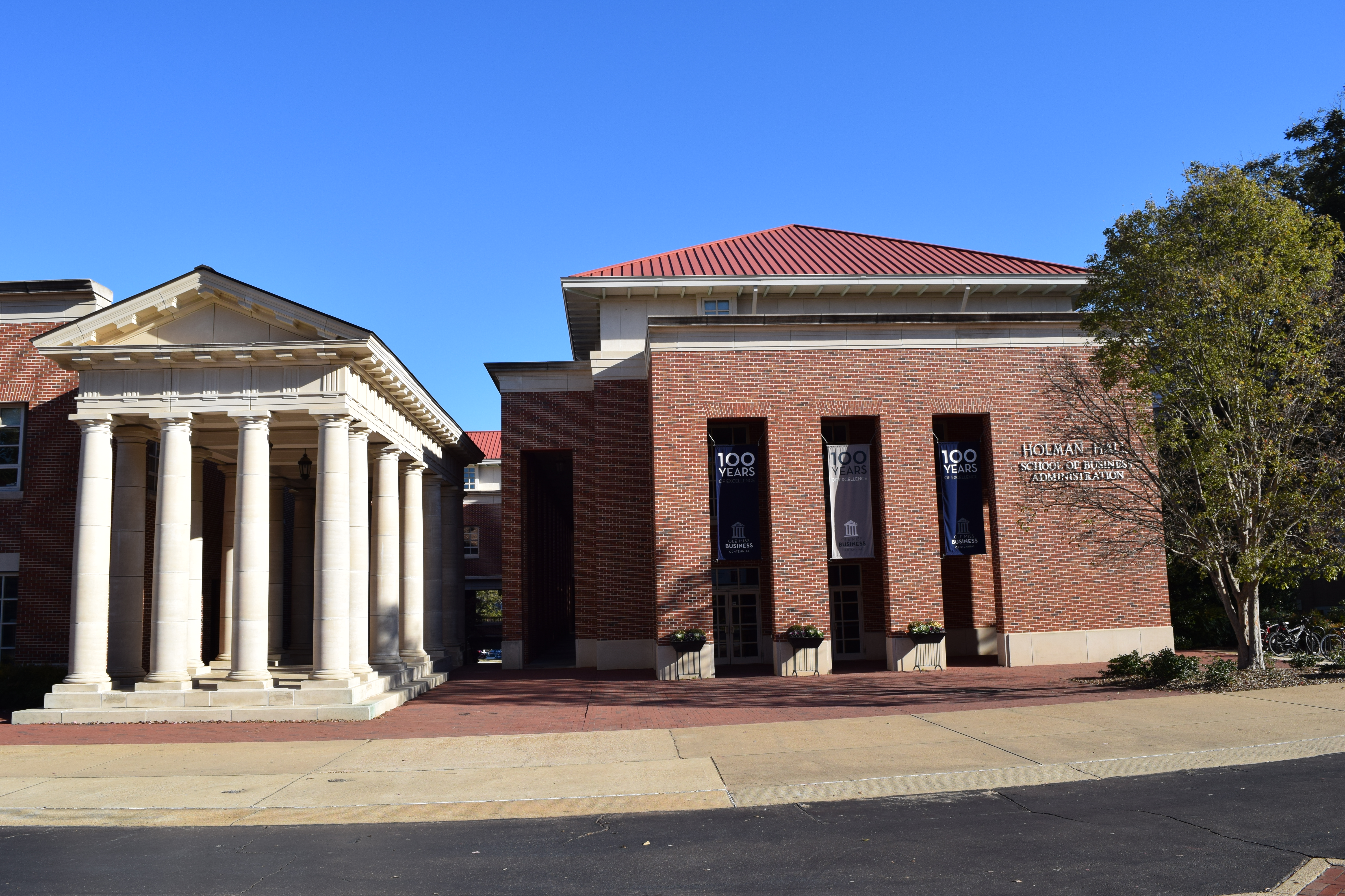 The south side of Holman Hall along Galtney-Lott Plaza on the University of Mississippi campus